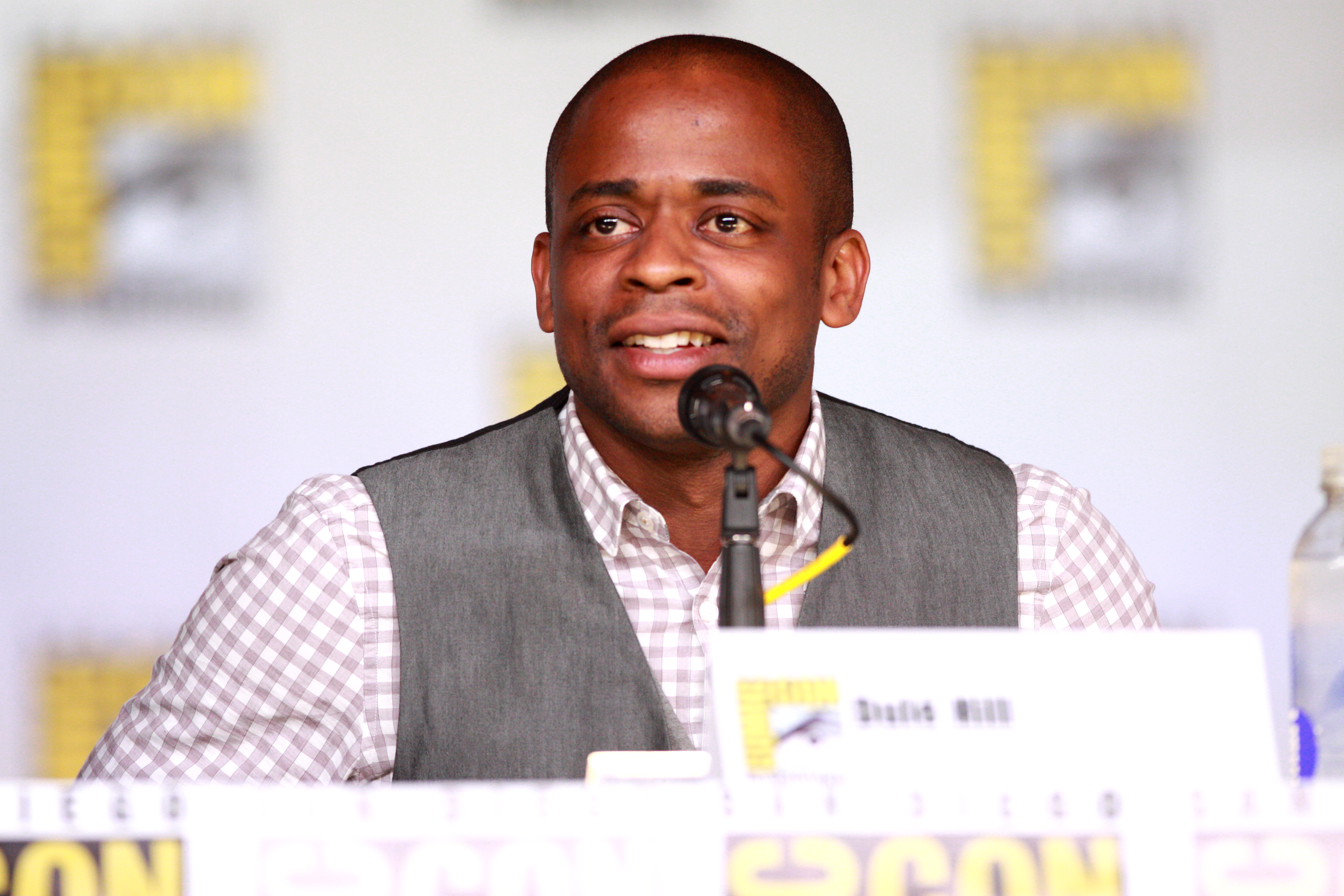 Dulé Hill speaking at the 2013 San Diego Comic Con International, for "Psych", at the San Diego Convention Center in San Diego, California.